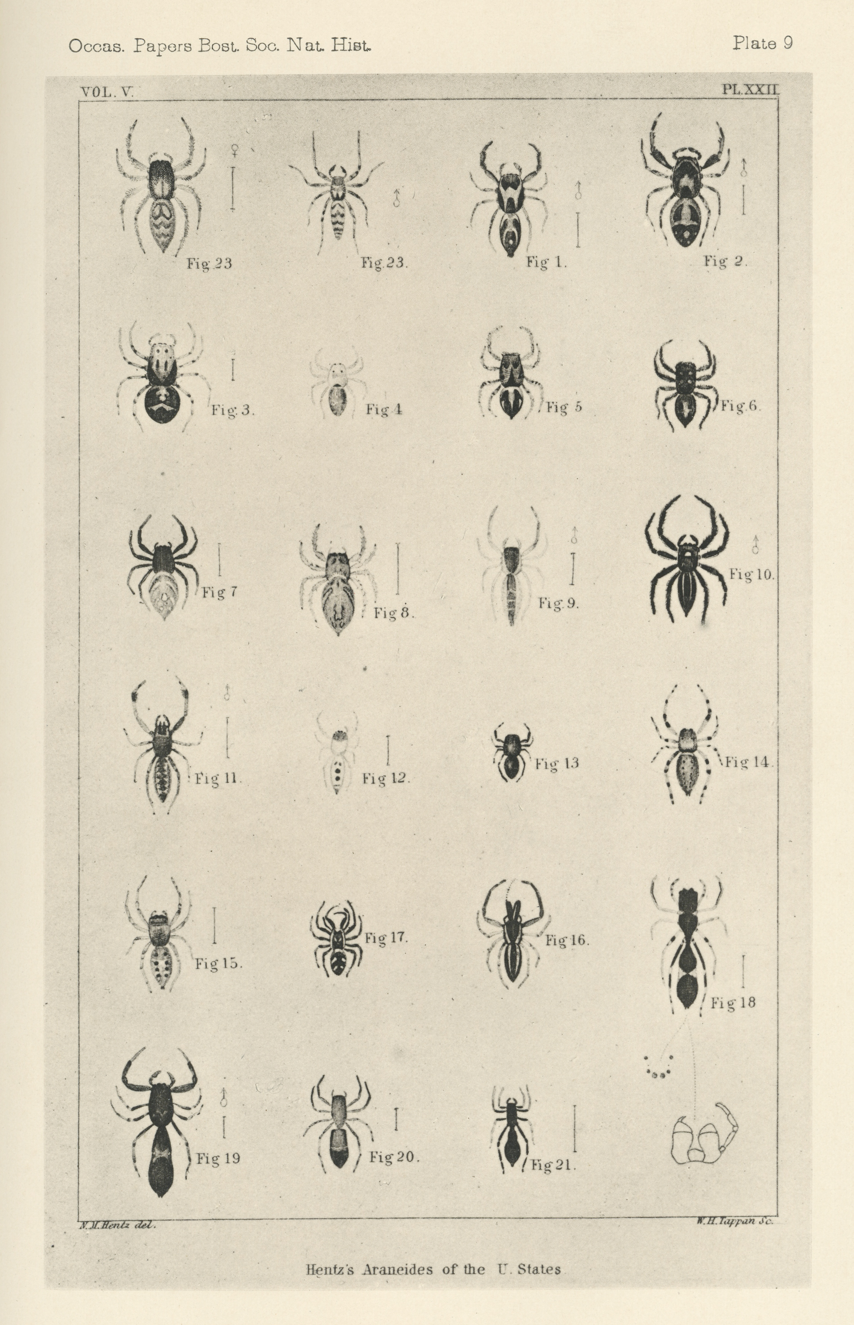 Spider diagnostic drawings by Nicholas Marcellus Hentz - Plate 9 1. Attus coronatus (now Habronattus coecatus). 2. Attus coecatus (now Habronattus coecatus). 3. Attus pulex (now Naphrys pulex). 4. Attus roseus (now Habronattus decorus). 5. Attus viridipes (now Habronattus viridipes). 6. Attus auratus (now Anasaitis canosa). 7. Attus multivagus (now Pellenes [vagabundus], nomen dubium). 8. Attus cristatus (now Habronattus coecatus). 9. Attus mitratus (now Hentzia mitrata). 10. Attus sylvanus (now Thiodina sylvana). 11. Attus superciliosus (now Tutelina elegans). 12. Attus morigerus (now Hentzia mitrata). 13. Attus cyaneus (now Sassacus cyaneus). 14. Attus canonicus (now Salticus [canonicus], nomen dubium). 15. Attus octavus (now Pelegrina proterva). 16. Epiblemum palmarum (now Hentzia palmarum). 17. Epiblemum faustum (now Salticus scenicus). 18. Synemosyna formica. 19. Synemosyna scorpiona (now Peckhamia scorpionia). 20. Synemosyna ephippiata (now Peckhamia scorpionia). 21. Synemosyna picata (now Peckhamia picata).